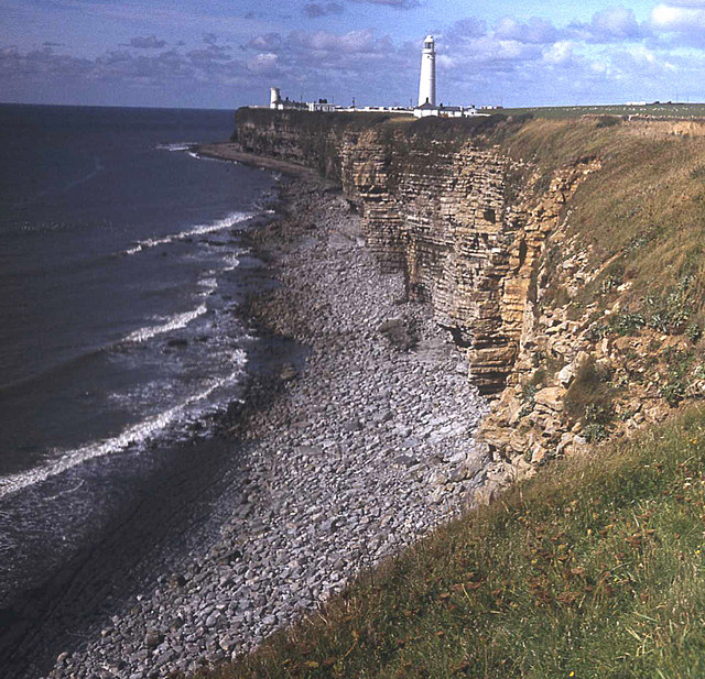 Crumbling cliffs at Nash Point View westwards to the two lighthouses. The cliffs here consist of alternating layers of soft sandstone and harder limestones. As the soft rock erodes, blocks of limestone fall to the bottom leaving a pile of rock at the foot of the cliff.